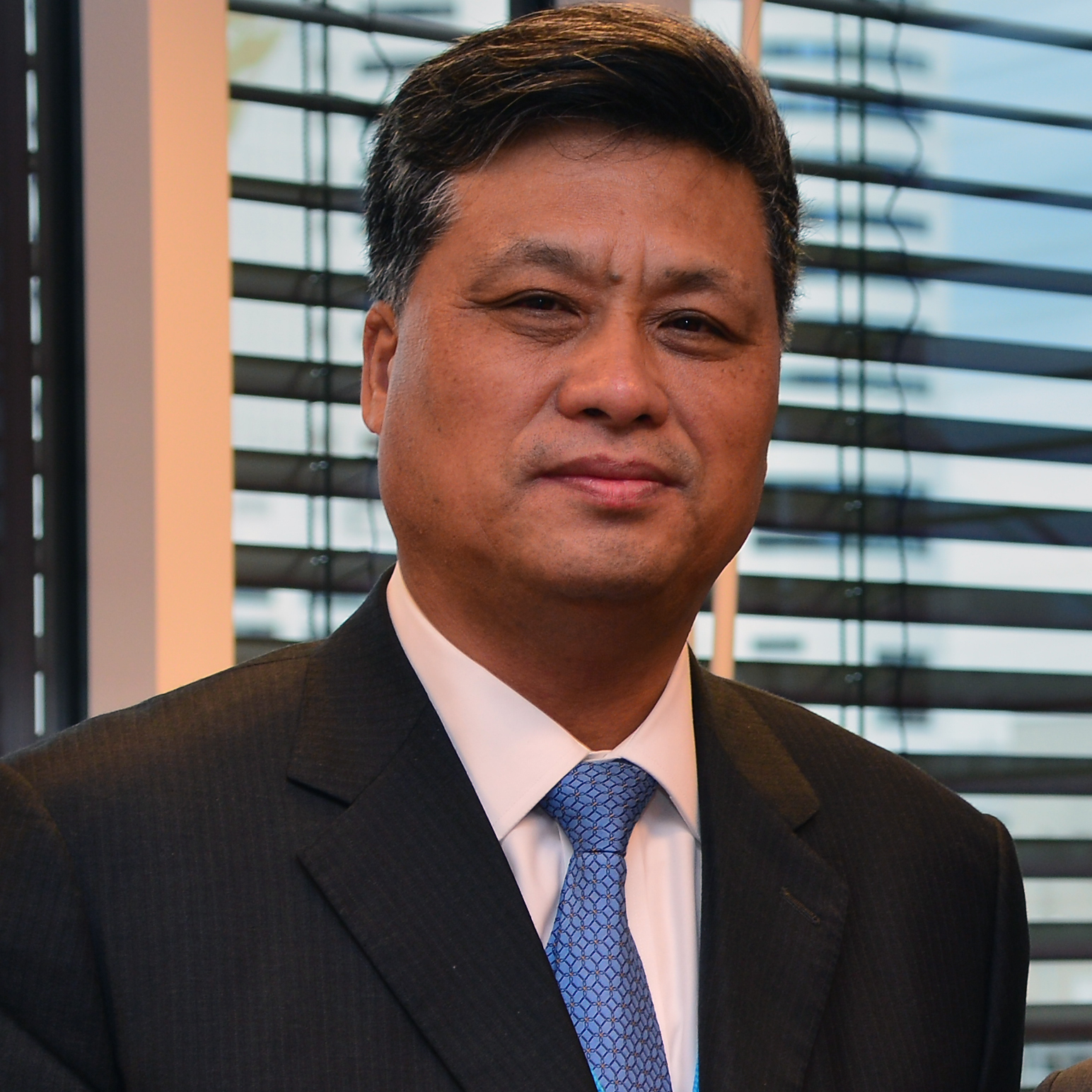 Ma Xingrui, Chair China Atomic Energy Authority (CAEA) crop image taken from a picture at a Bilateral meeting between him and IAEA Director General Yukiya Amano at the IAEA 57th General Conference. IAEA, Vienna, Austria. 16 September 2013. Photo Credit: Dean Calma / IAEA